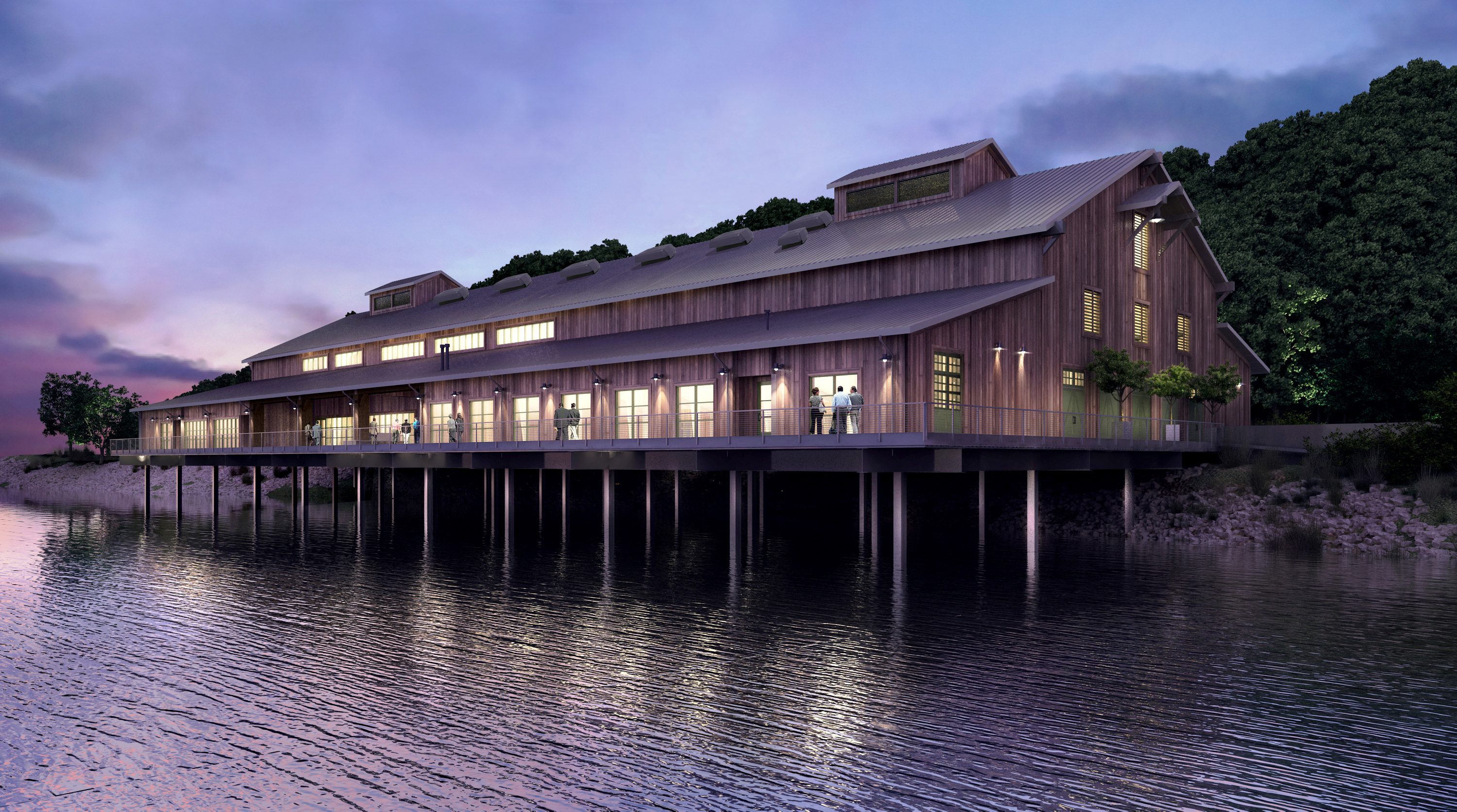 River View of the Facility at dusk illustrating the pedestrian walkway around the entire perimeter.